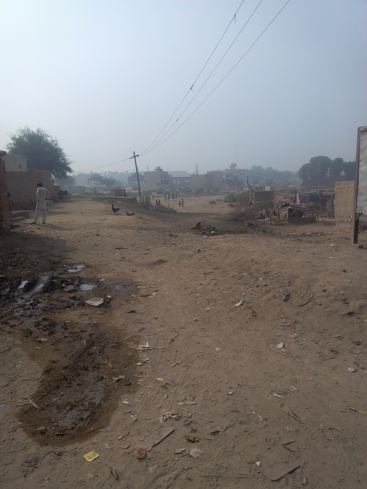 Rawla mandi slum area